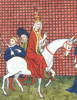 Louis I, Duke of Anjou leading Pope Gregory XI to the palace at Avignon, while cardinals follow.